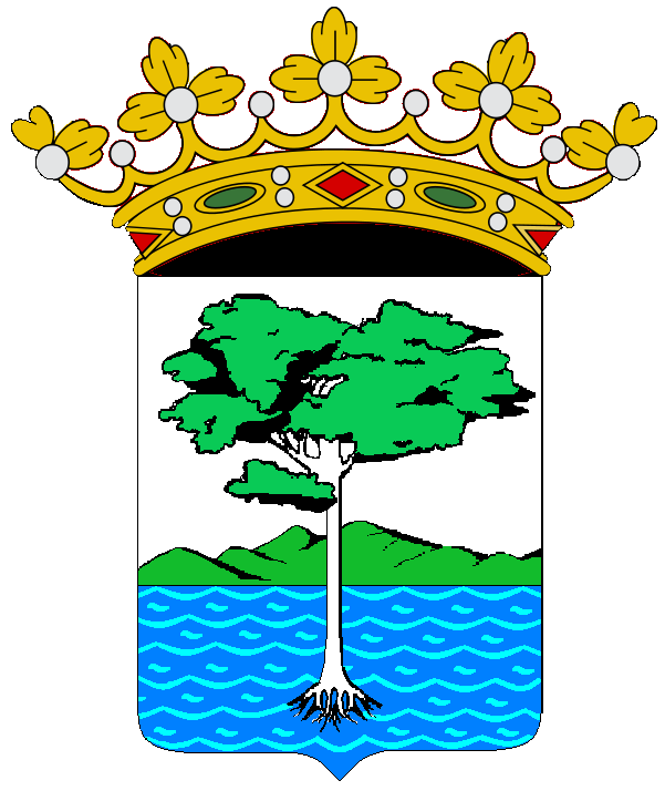 Coat of arms of the former Spanish posession of Rio Muni, then Spanish Guinea, now Equatorial Guinea. Based on a stamp. Emerson